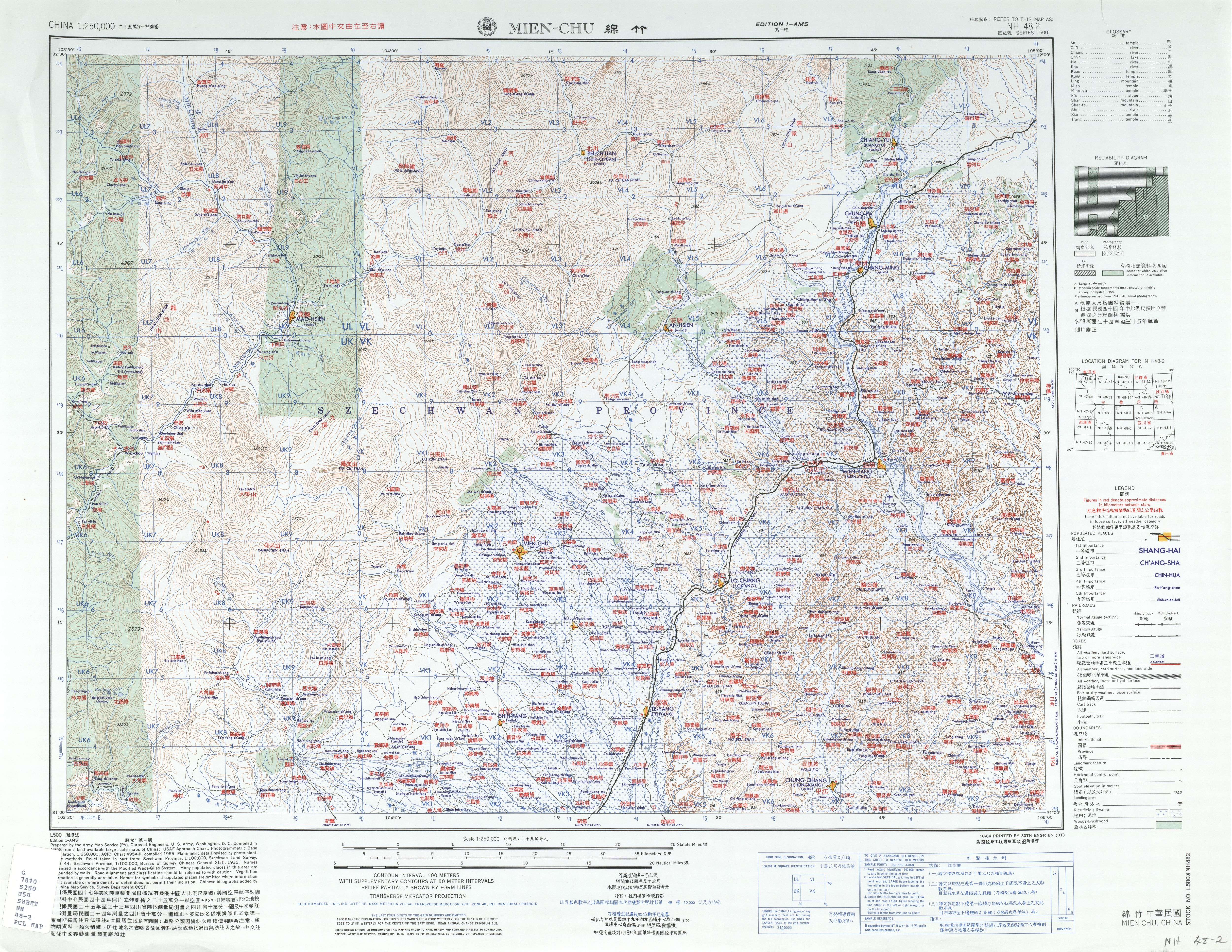 China AMS Topographic Maps